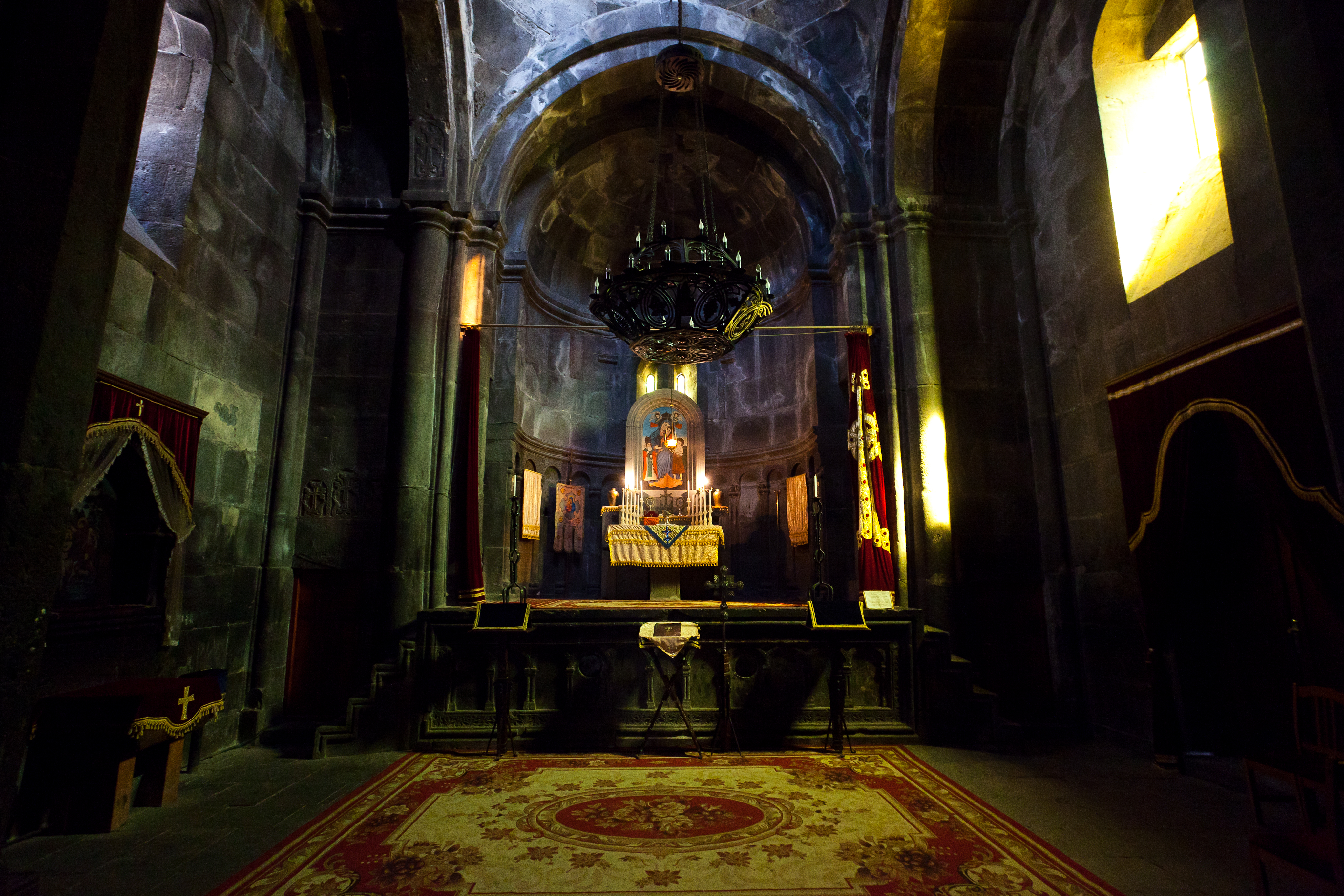 Geghard churches interior in Armenia